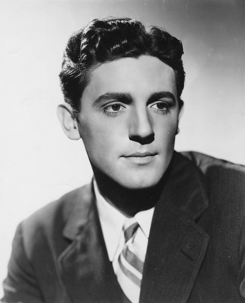 Publicity photo of actor Richard Fiske